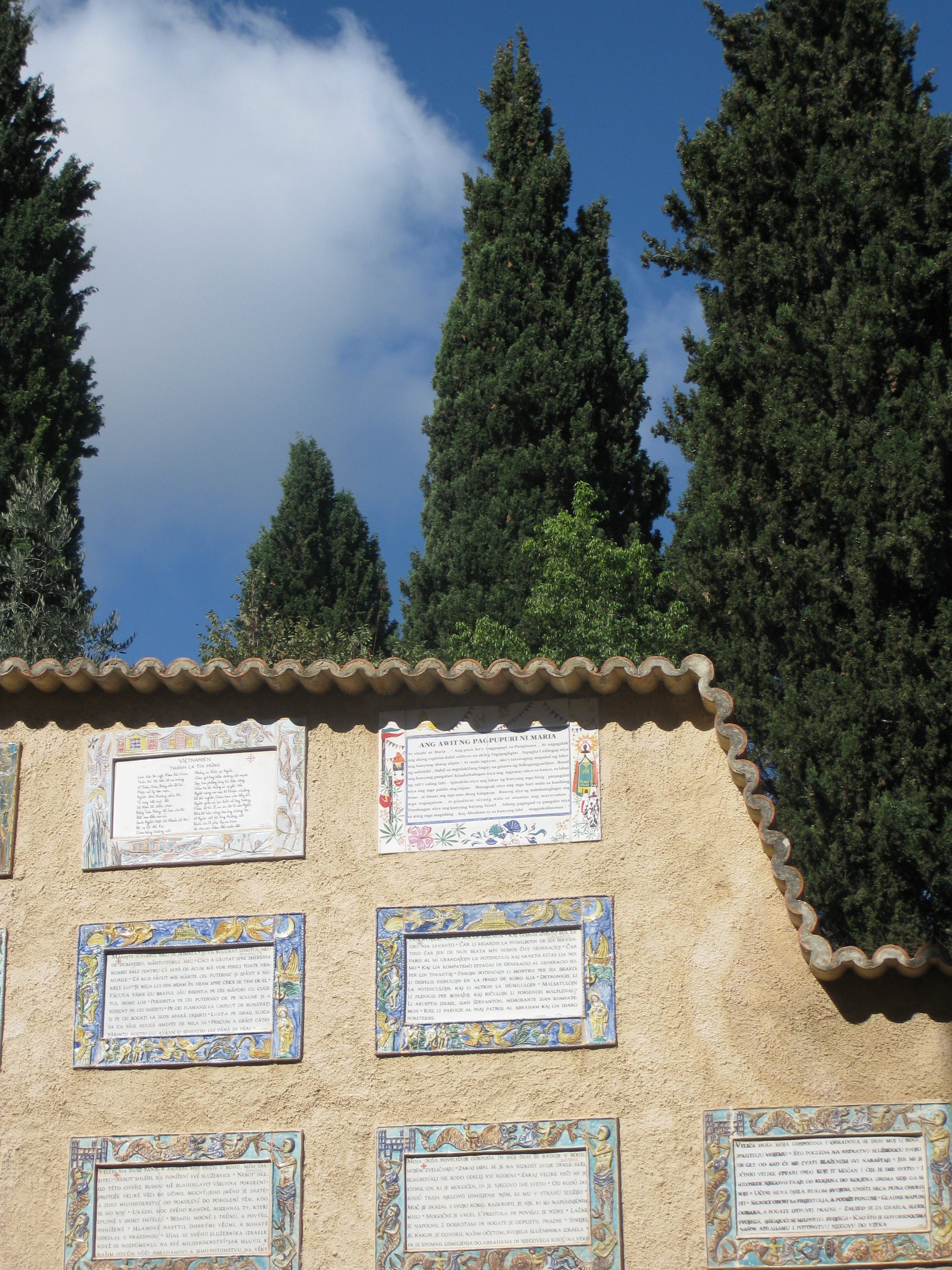 The Magnificat in the Church of the Visitation, Ein Karem, Jerusalem Center: Esperanto, above: Filipino, below: Slowenian, left: Vietnamese, Romanian, Czech, right: Croatian